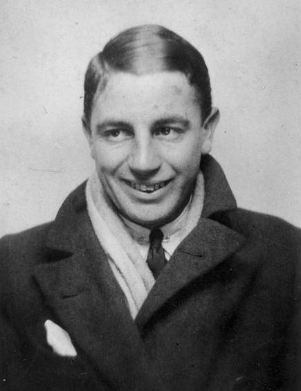 Harold Holt as a university student